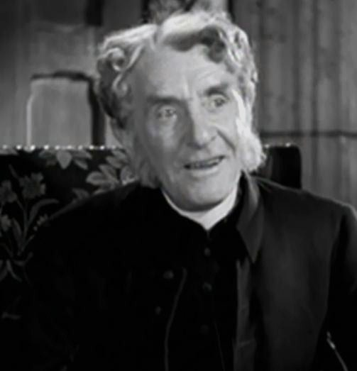 Ivan Simpson in Little Lord Fauntleroy (cropped screenshot)